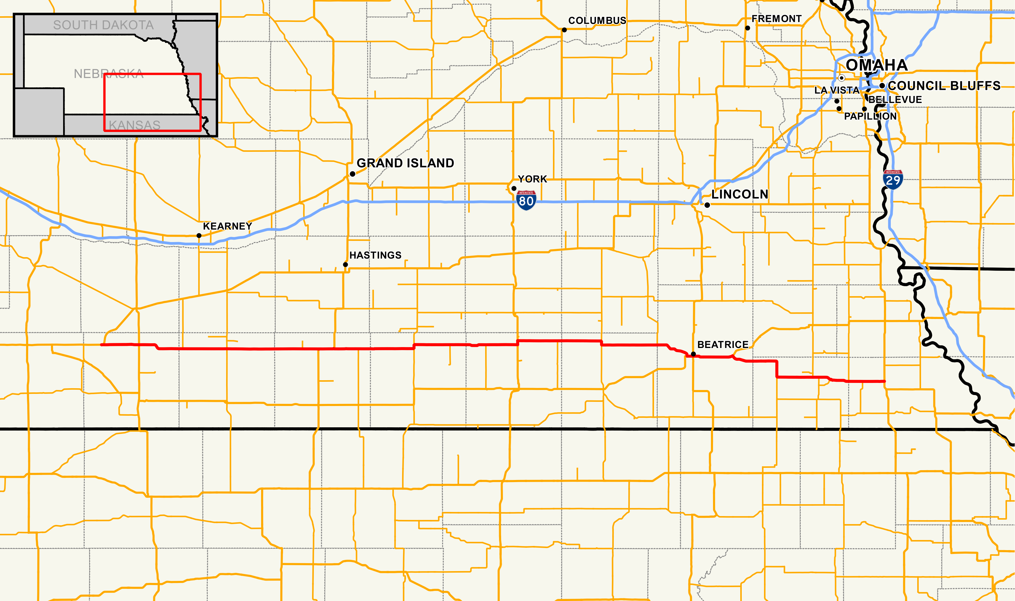 Map of Nebraska Highway 4 Data Sources: Nebraska Highways - - Dec 2016 Nebraska County Boundaries - - Dec 2016 Nebraska City Boundaries - - Dec 2016 This PNG graphic was created with QGIS